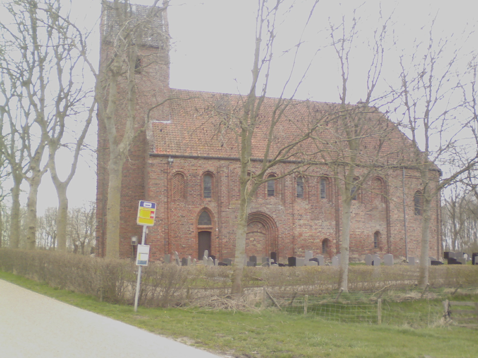 Church in the village Hantumhuizen